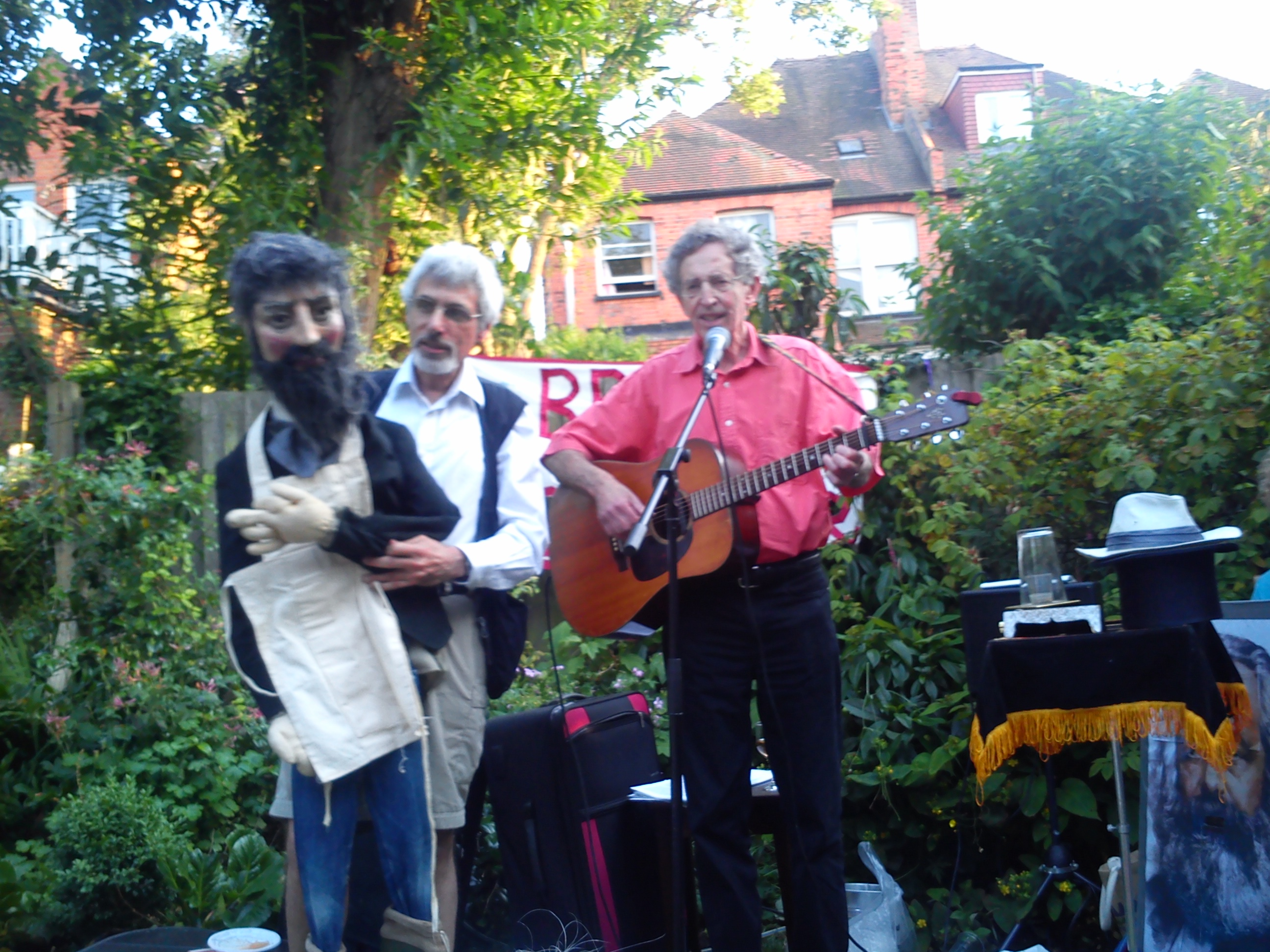 Leon Rosselson (right), performing with Ian Saville and William Morris, Willesden, 7 July 2013